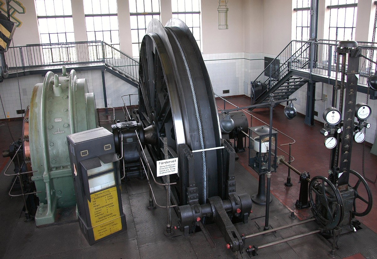 Elektric winding engine at top of the shaft tower of Kaiserin Augusta shaft (since 1946 Karl Liebknecht shaft) at Oelsnitz/Erzgebirge